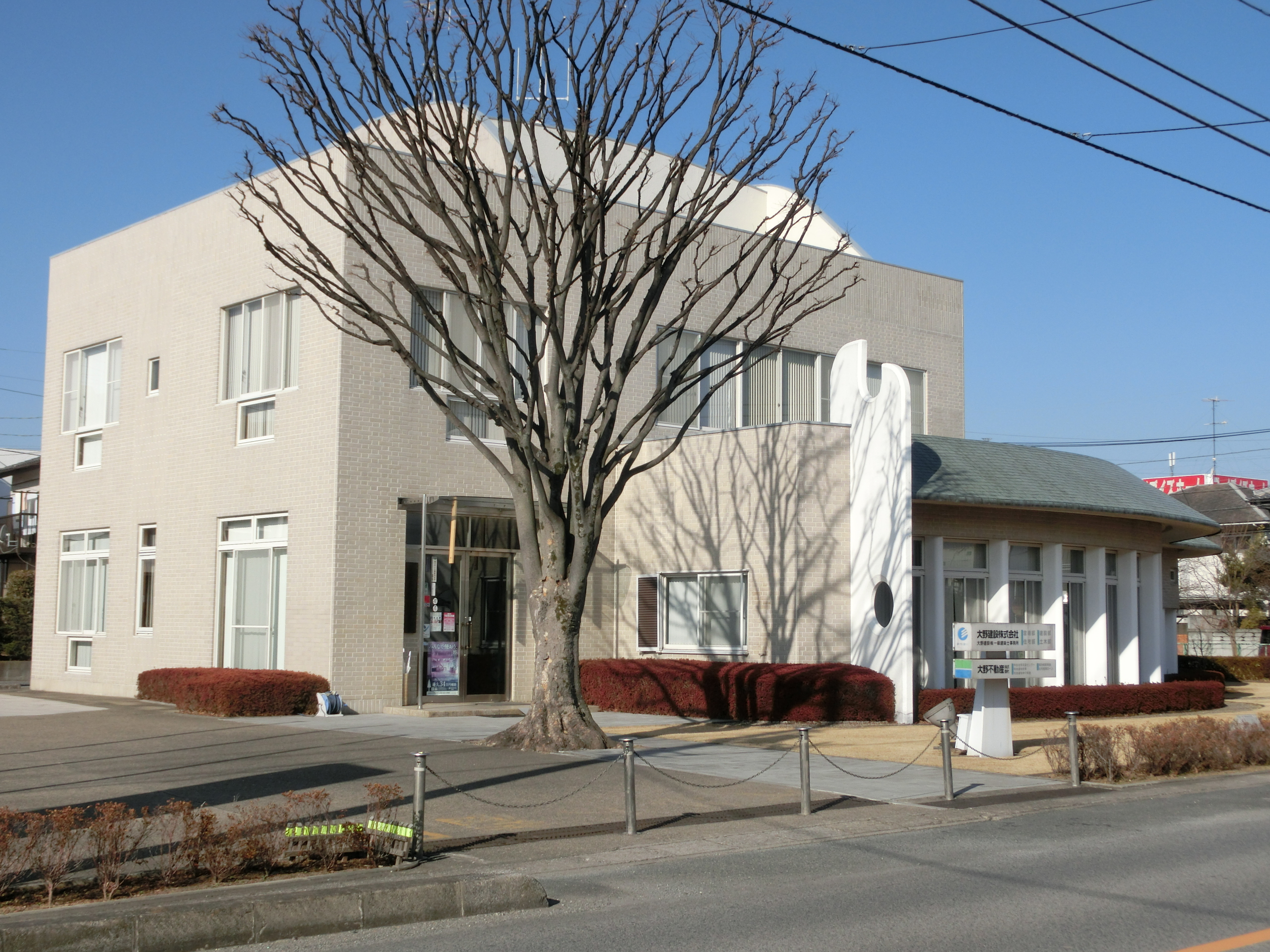 Oono Construction Head Office